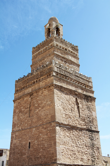 Sfax Grand Mosque Minaret